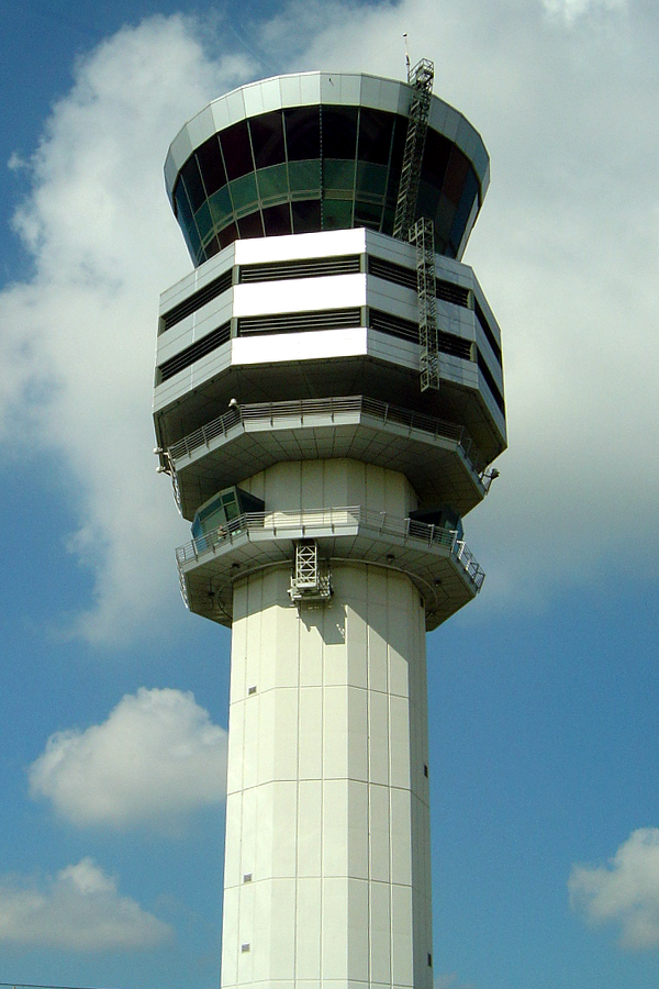 New tower of Brussels Airport at the eastside